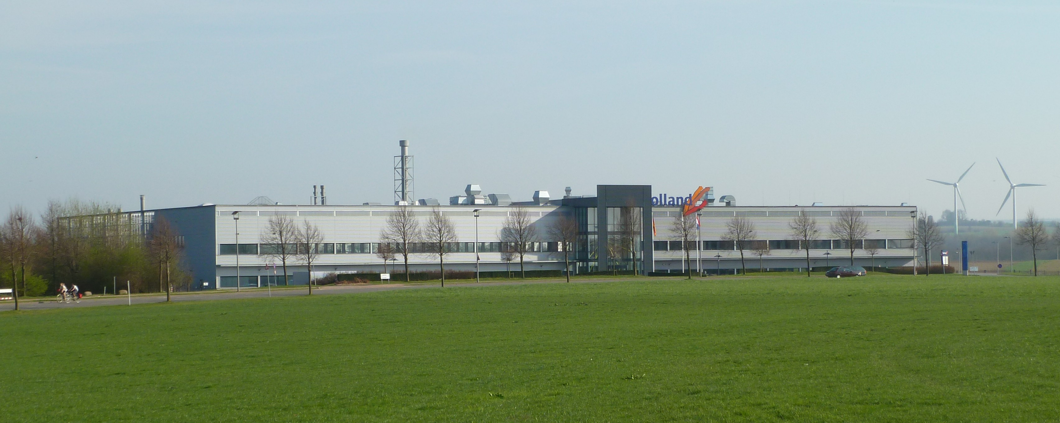 Exterior view of solar cell manufacturer Solland Solar in the business park Avantis between Aachen, Germany, and Heerlen, The Netherlands